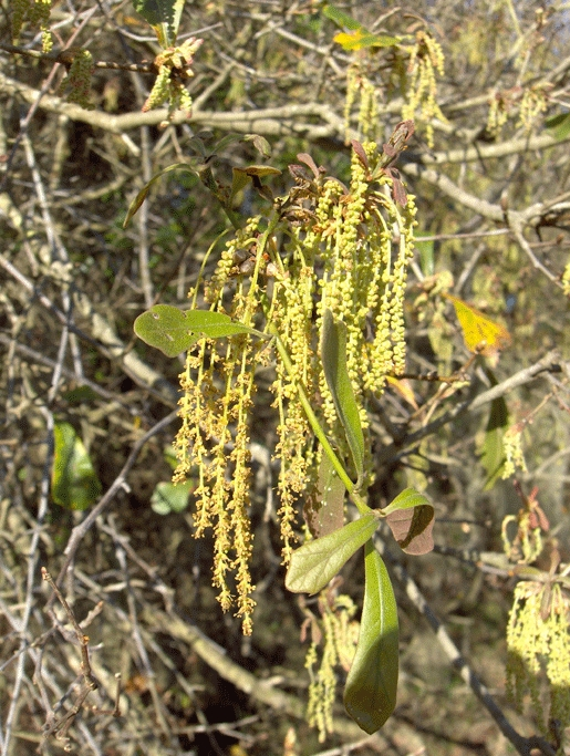 Water Oak catkins in Florida.